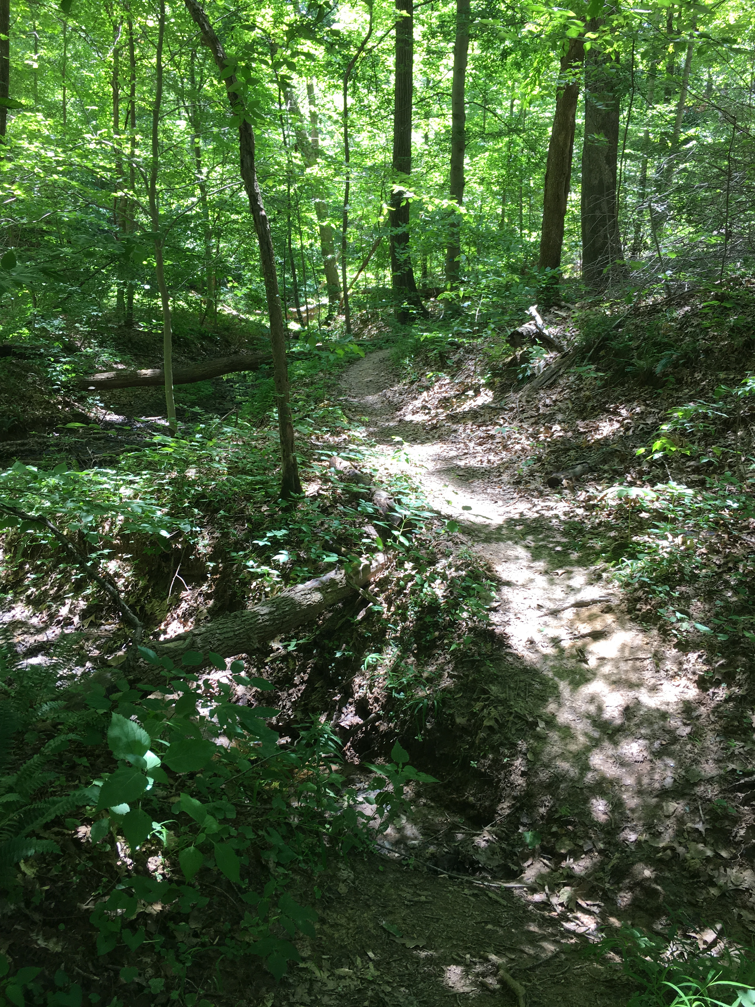 Exploring new trails at Morgan-Monroe. Shares are welcome. Please credit @TrailSeeds. Join our adventures at